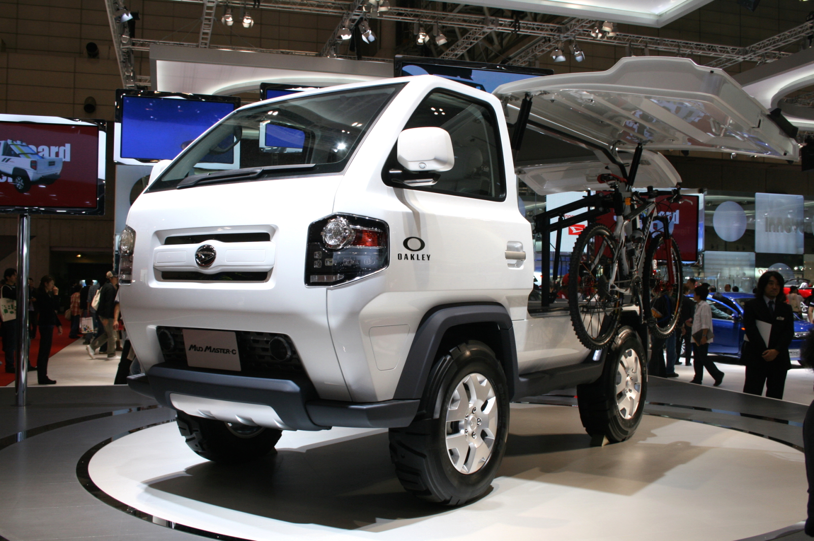 Daihatsu Mud Master in Tokyo motor show